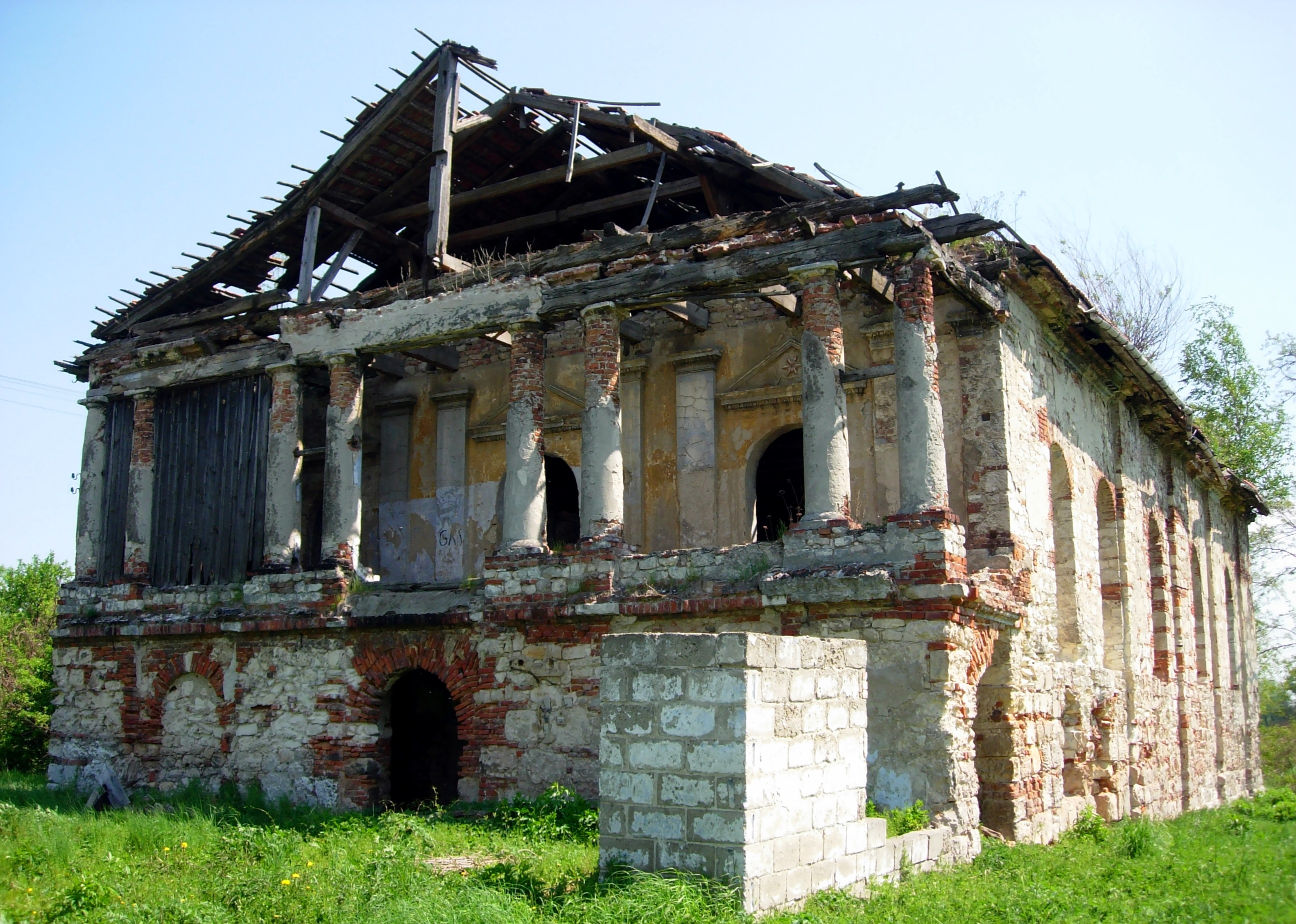 The ruins of the synagogue in Nowy Korczyn, Poland